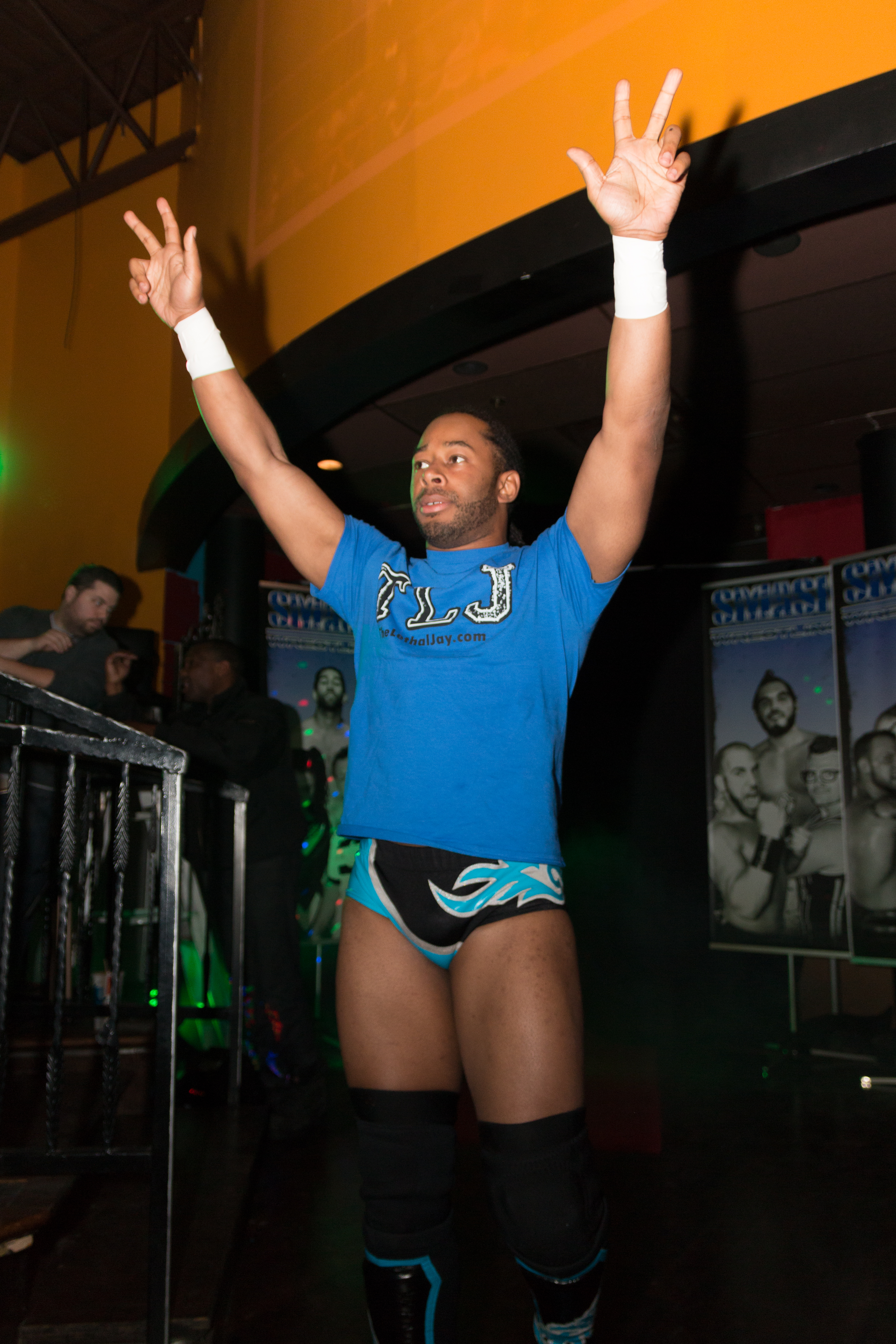 Professional wrestler Jay Lethal making his entrance at Smash Wrestling's Danger Zone show